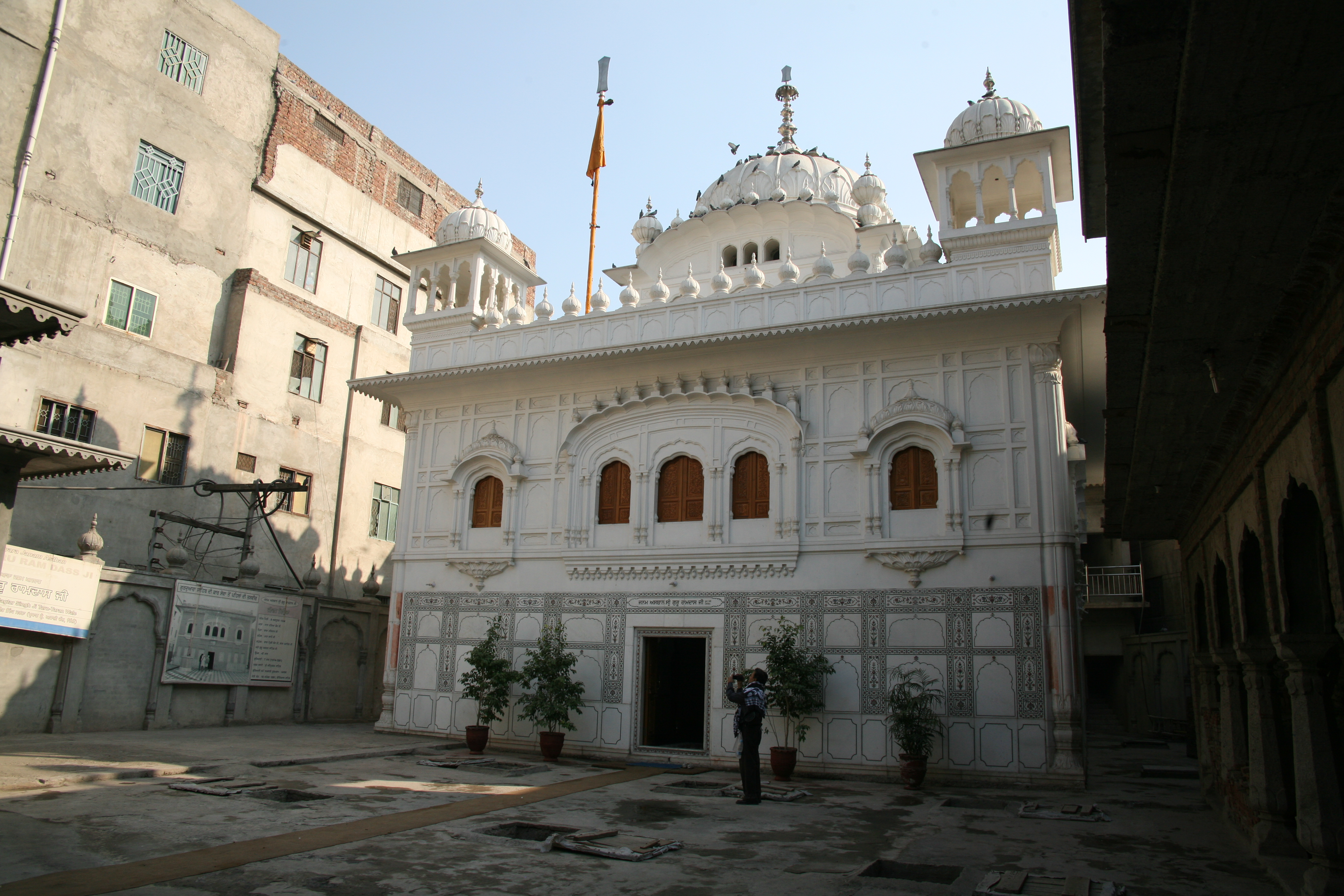 Gurudwara Arjun Ram This is a photo of a monument in Pakistan identified as the L-U-7